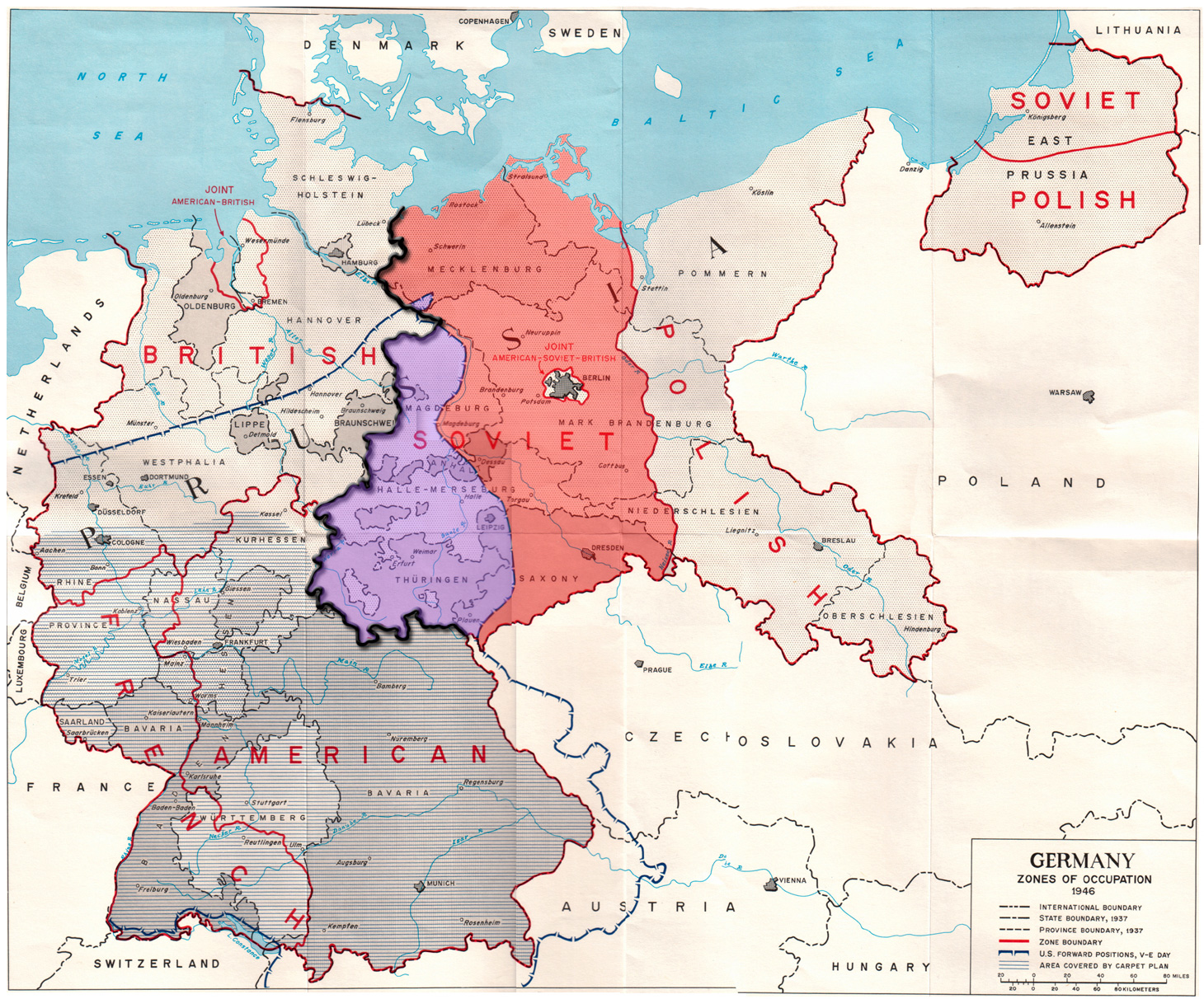 Map of the occupation zones of Germany in 1945, modified to show the inner German border and the zone from which Allied forces withdrew in July 1945. From Earl F. Ziemke, The U.S. Army in the Occupation of Germany, 1975. Library of Congress, Catalog Card Number 75-619027. Explanation taken from Inner_German_border: The Allied zones of occupation in post-war Germany, highlighting the Soviet zone (red), the inner German border (heavy black line) and the zone from which British and American troops withdrew in July 1945 (purple). The provincial boundaries are those of pre-Nazi Weimar Germany, before the present Länder (federal states) were established.